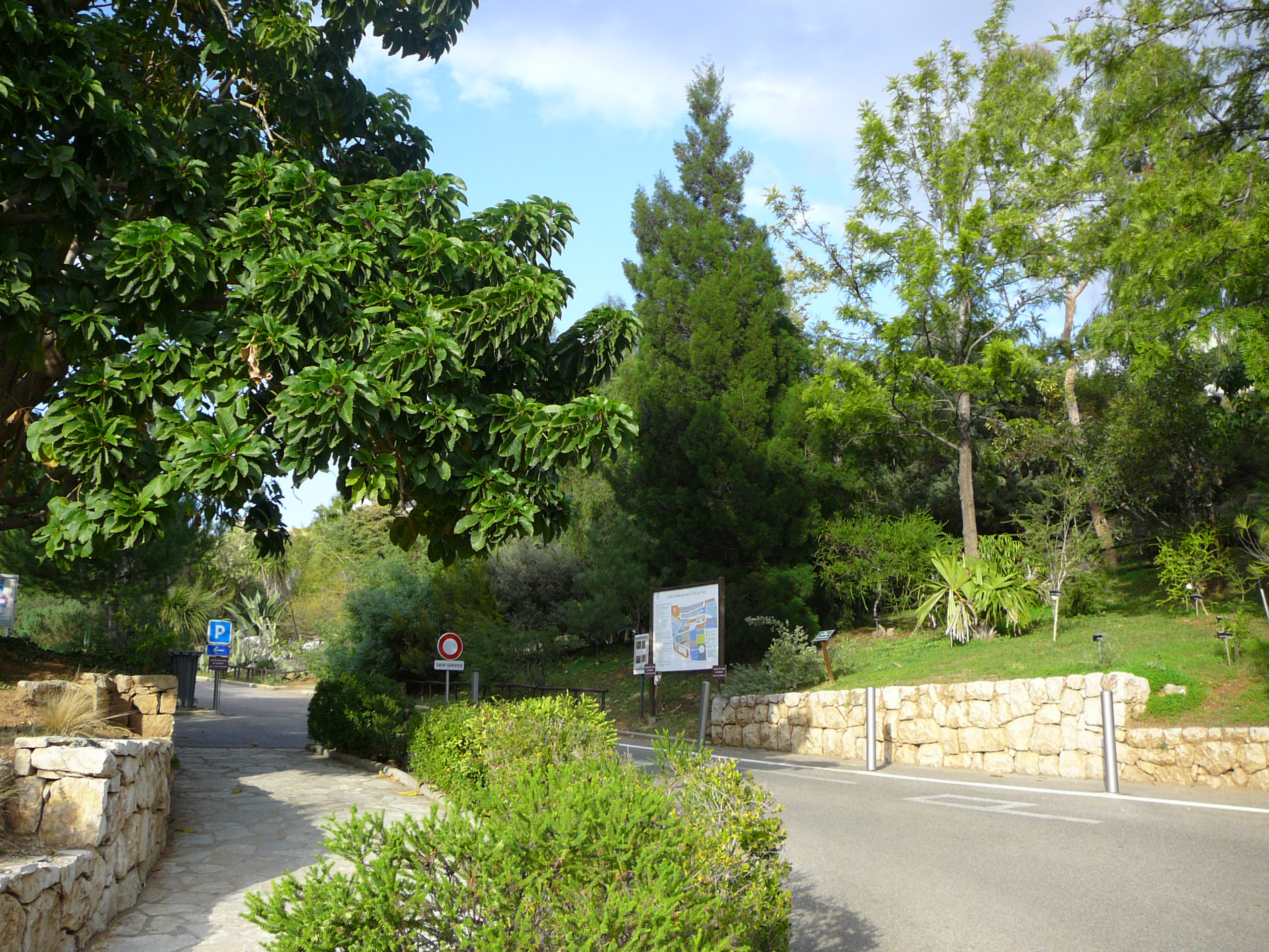 Jardin botanique de Nice - Entrance